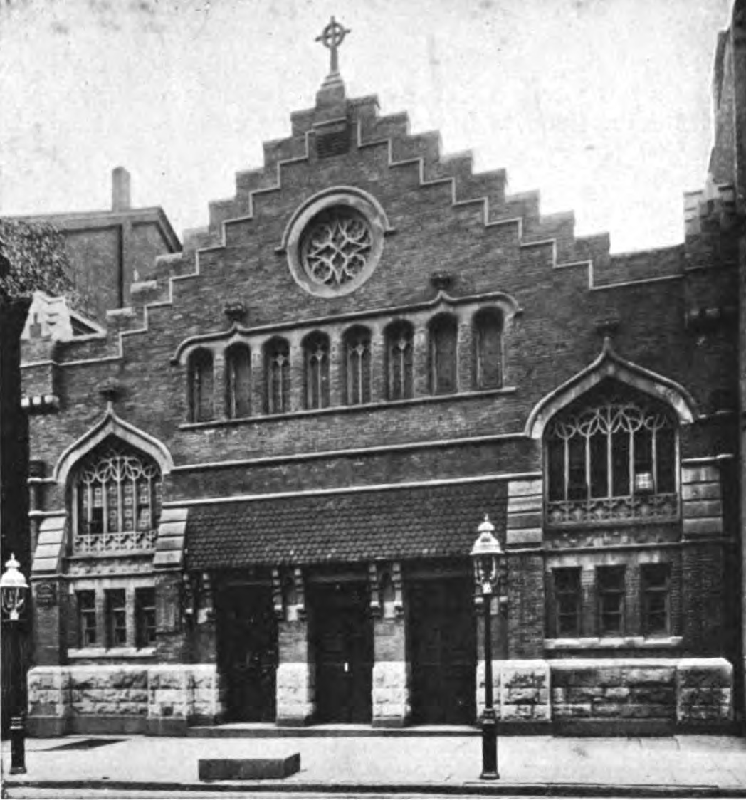 An image of Saint Catherine of Genoa's Church taken from a 1914 publication entitled "The Catholic Church in the United States of America: Undertaken to Celebrate the Golden Jubilee of His Holiness, Pope Pius X, Volume 3." The image can be found on page 320.